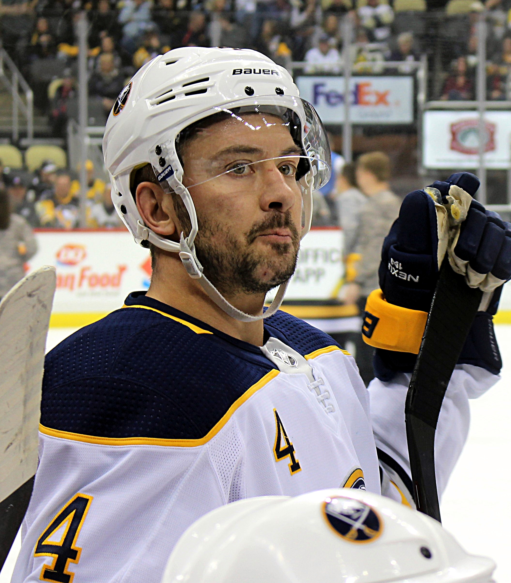 Buffalo Sabres defenseman Josh Gorges during a game against the Pittsburgh Penguins, November 14, 2017, at PPG Paints Arena in Pittsburgh, PA.